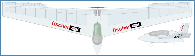 Mizchel U2 Microlight